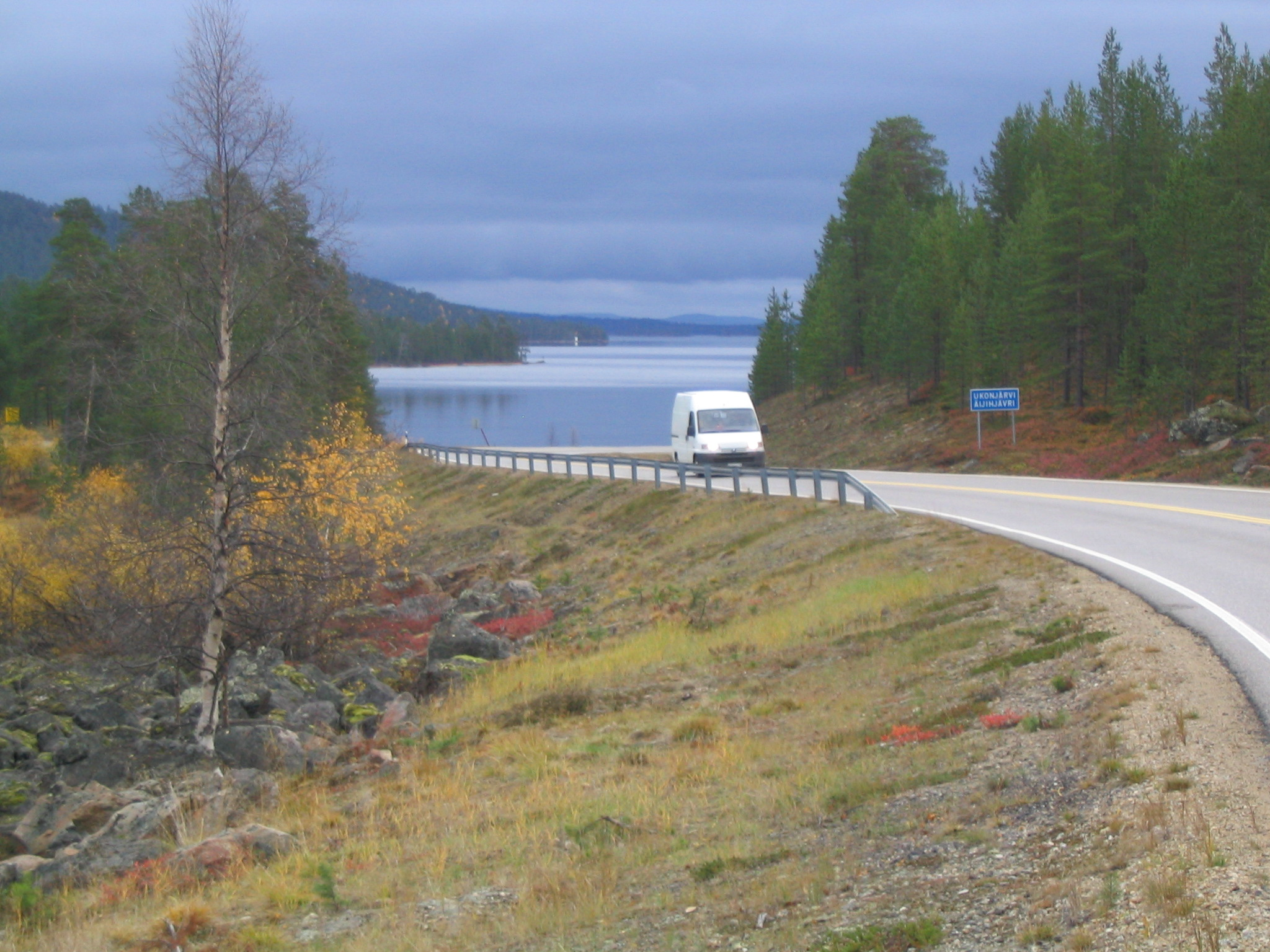 Finnish national road 4 (E75) in Ukonjärvi, some 20 kilometres north from Ivalo.